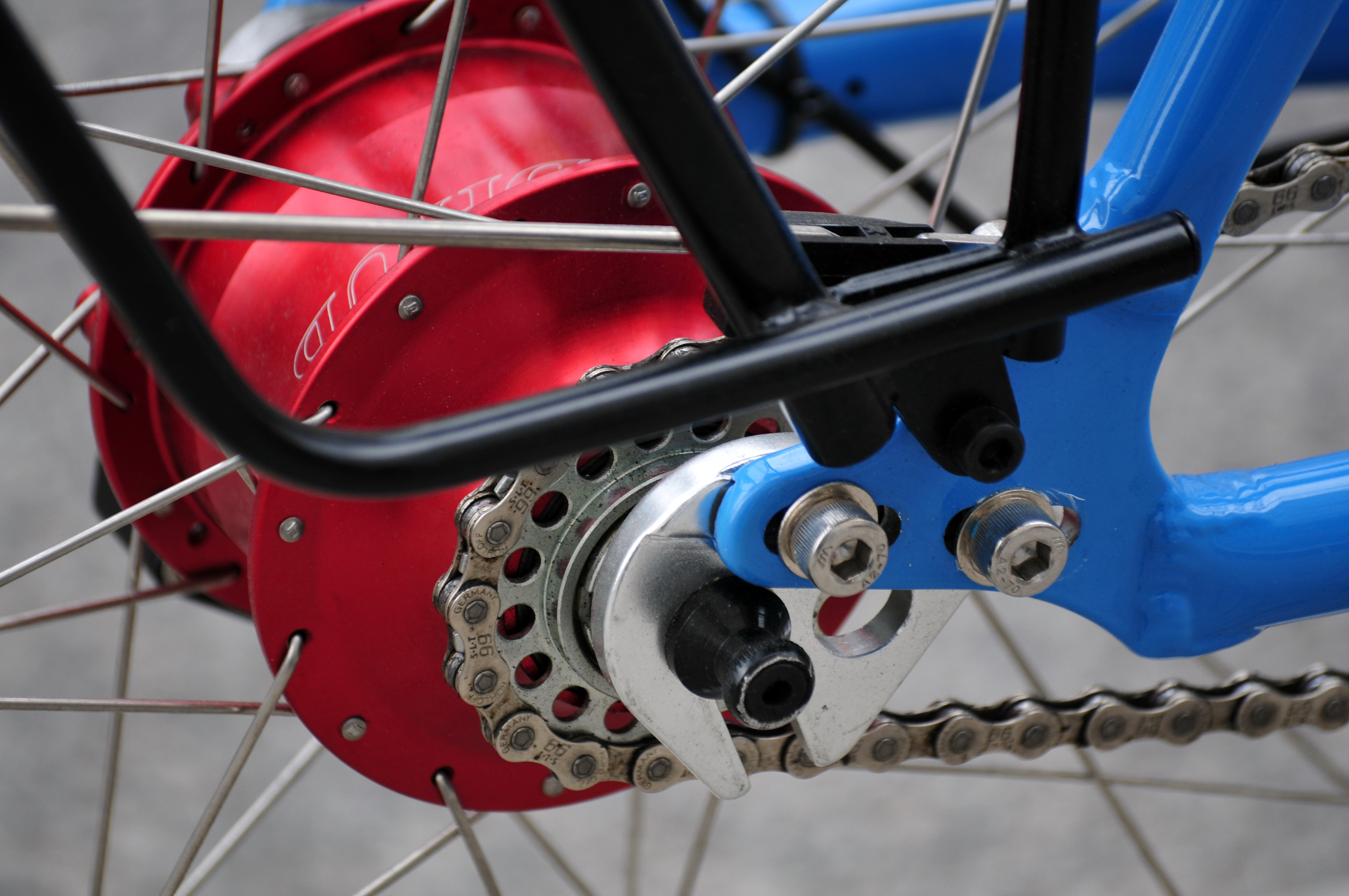 geared wheel hub in Rohloff dropouts on the rear wheel of an aluminium touring bicycle